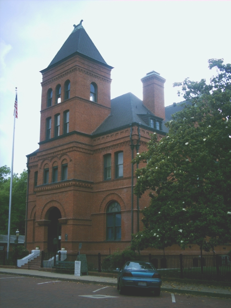 Post Office Museum- Jefferson, Texas